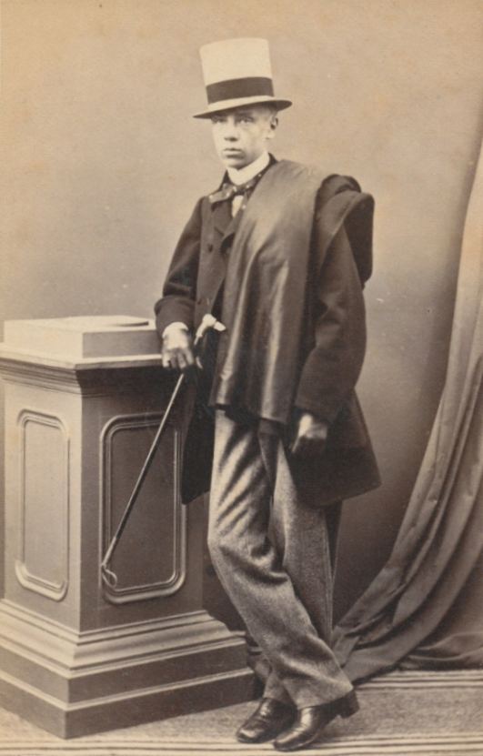 Count Adam Męciński (1847–1923), owner of Dukla and Chyrów, photo by Legrand, Paris.